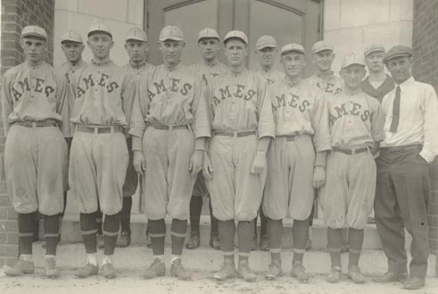 1918 Iowa State University baseball team photo